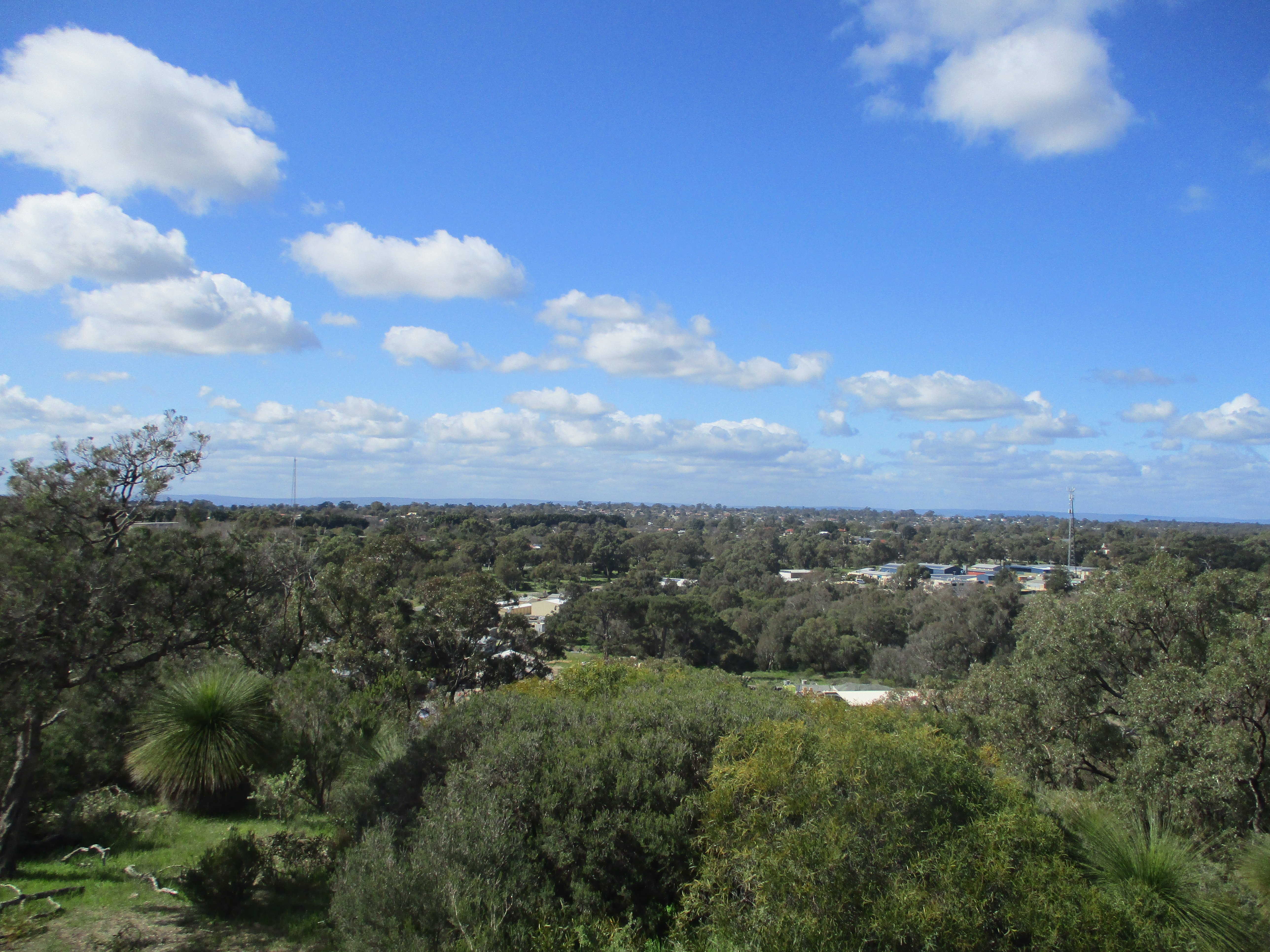 Chalk Hill Lookout at Medina, Western Australia. Looking east, over Medina.